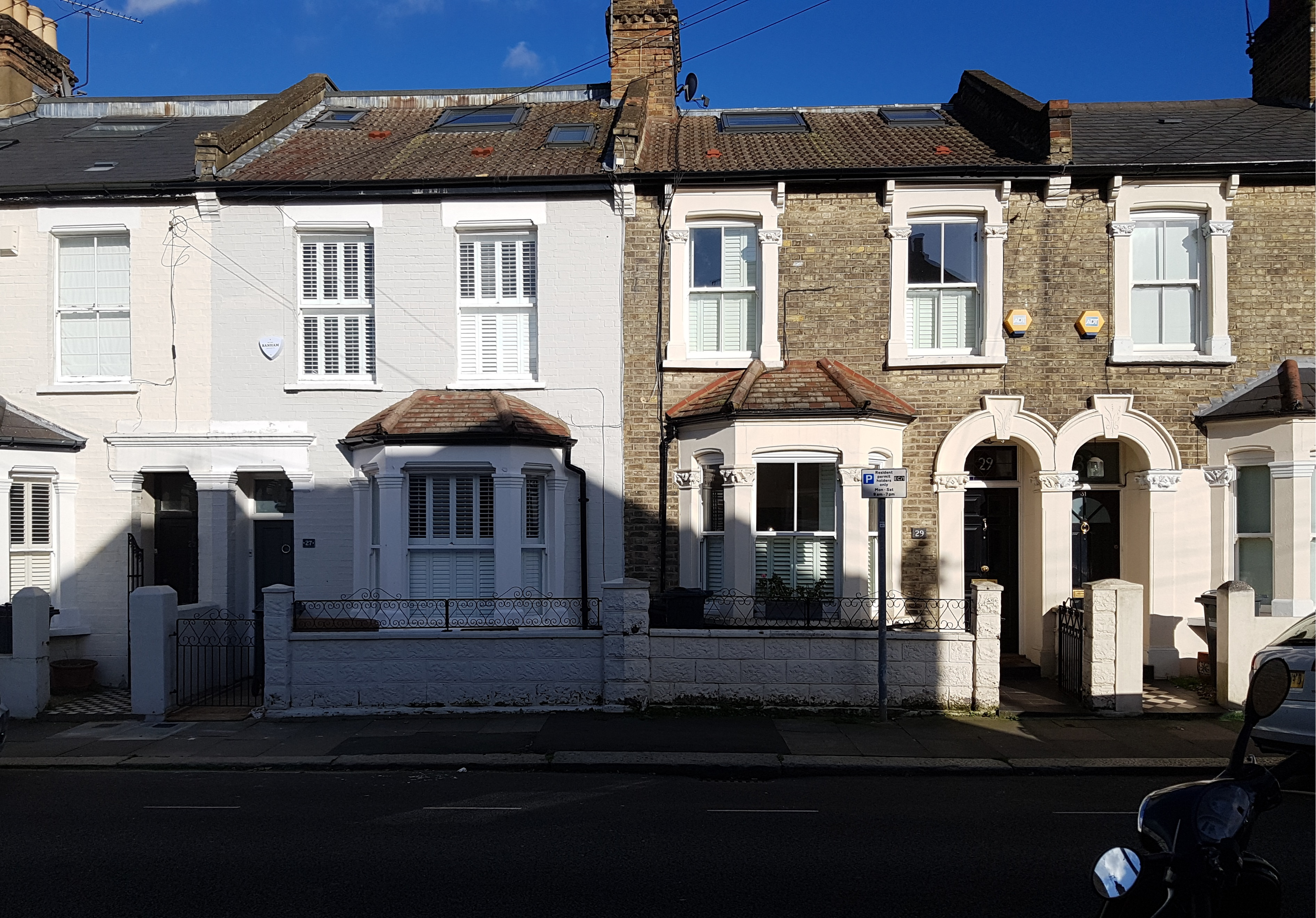 Housing